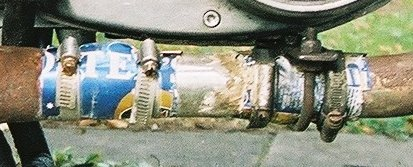 Sections of exhaust pipe joined, not by welding, but by the use of exhaust jointing paste, beer cans and jubilee clips. The result may look unconventional, but it doesn't leak or fall apart, and did not involve the spending of money or the use of heavy equipment.